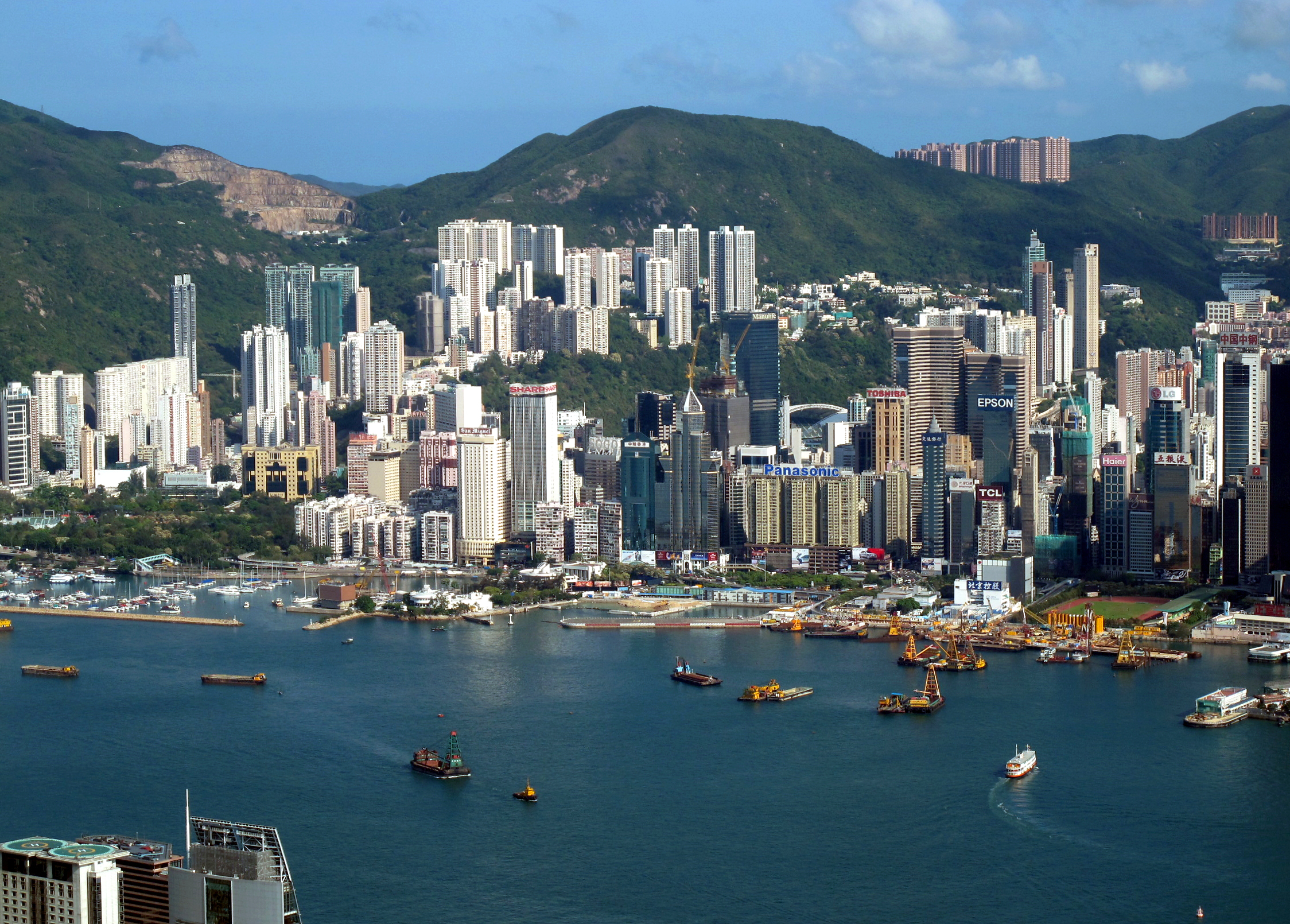 Causeway Bay View from ICC 銅鑼灣